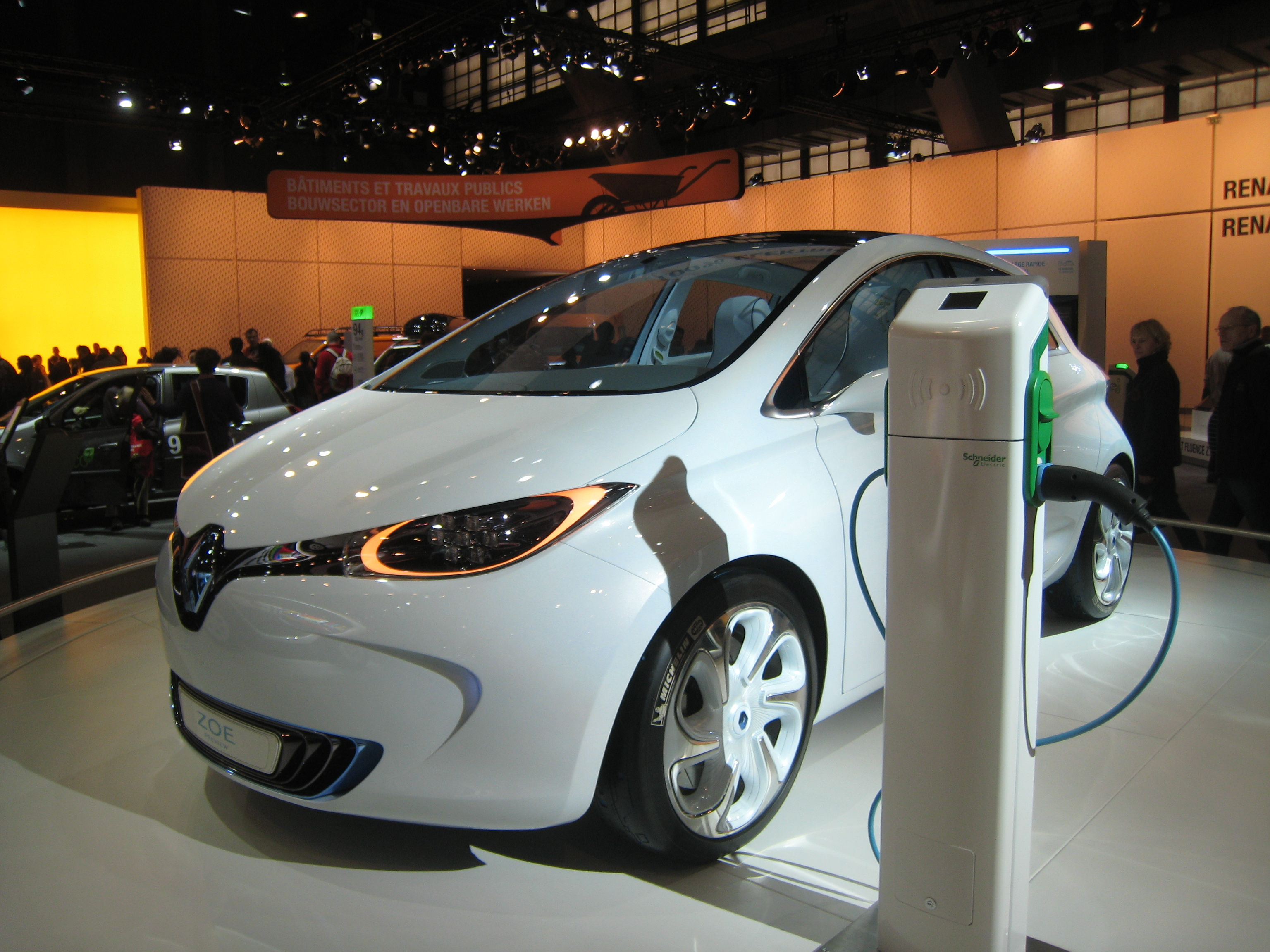 Renault ZOE charging